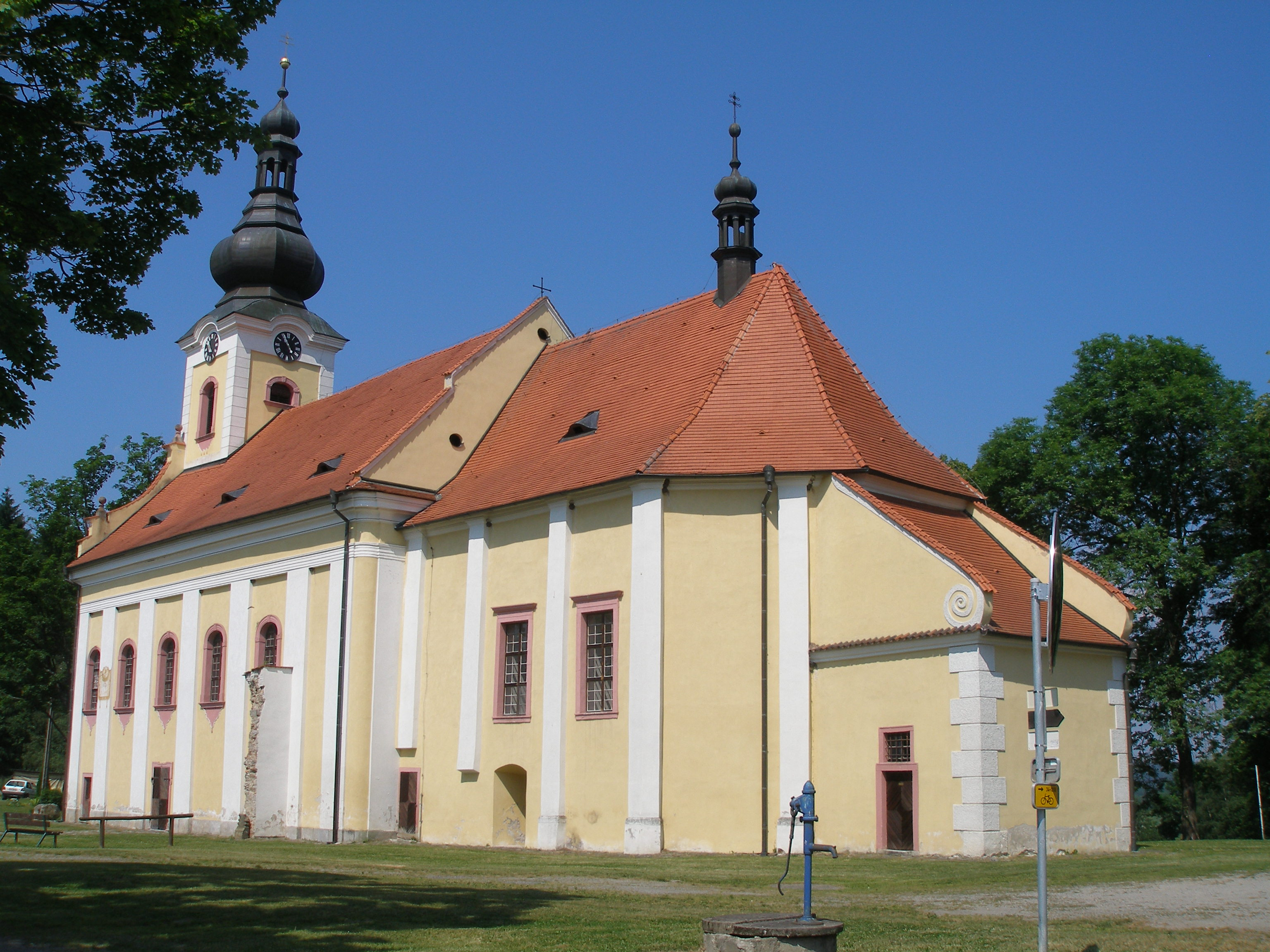 Church of Our Lady of the Snow in Svatý Kámen (Holy Stone)